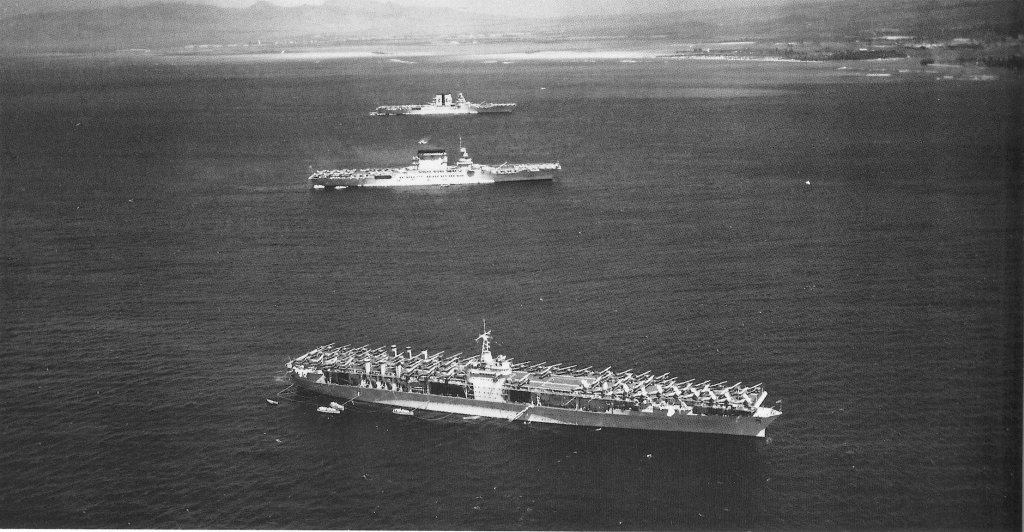 The U.S. Navy aircraft carriers USS Ranger (CV-4), foreground, USS Lexington (CV-2), middle distance, and USS Saratoga (CV-3) lie at anchor off Honolulu, Territory of Hawaii, on 8 April 1938 during exercise "Fleet Problem XIX".